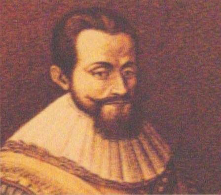 Maarten Schenck van Nydeggen